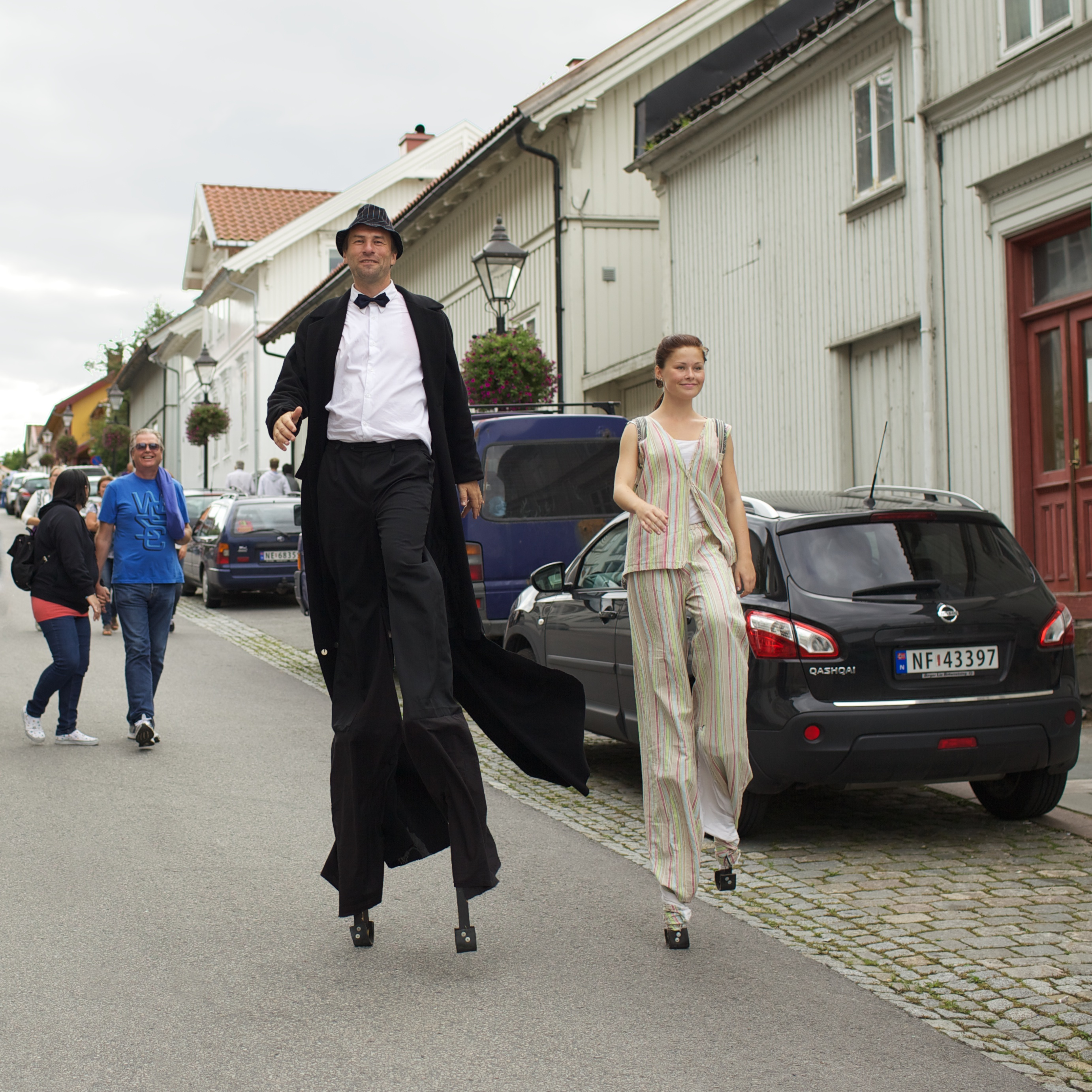 Tall people